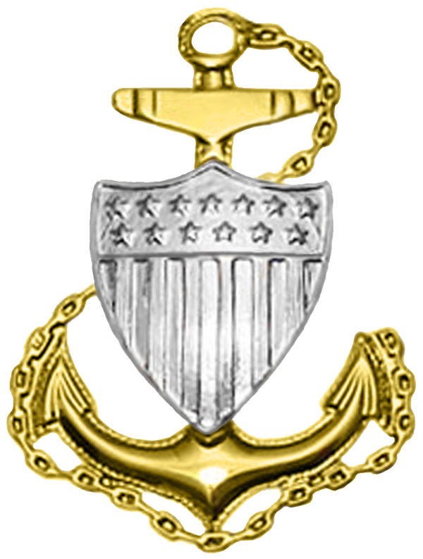 US Coast Guard Chief Petty Officer Collar Device rate insignia